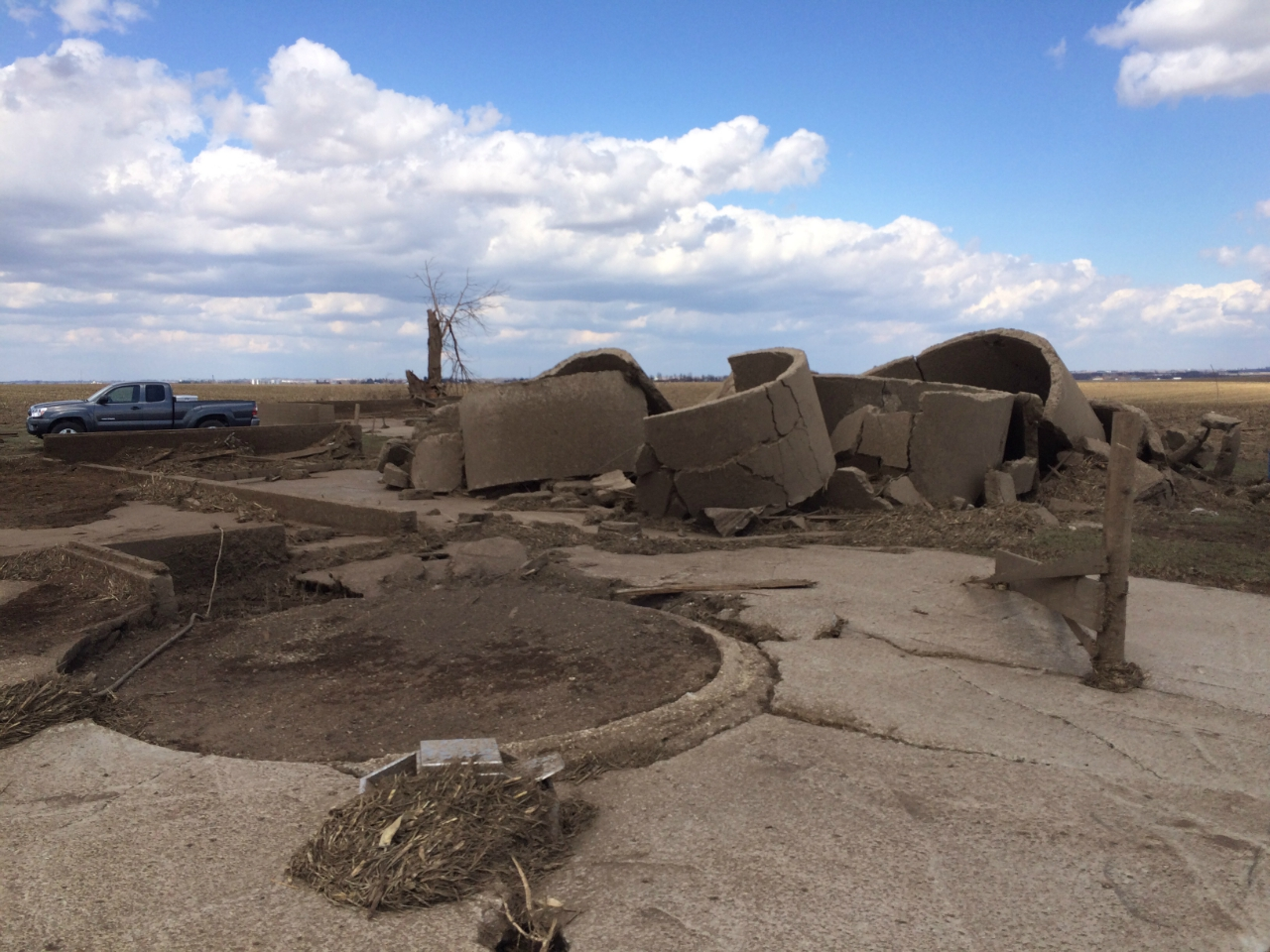 A concrete reinforced silo was reduced to rubble by the April 9, 2015 Rochelle, Illinois tornado.